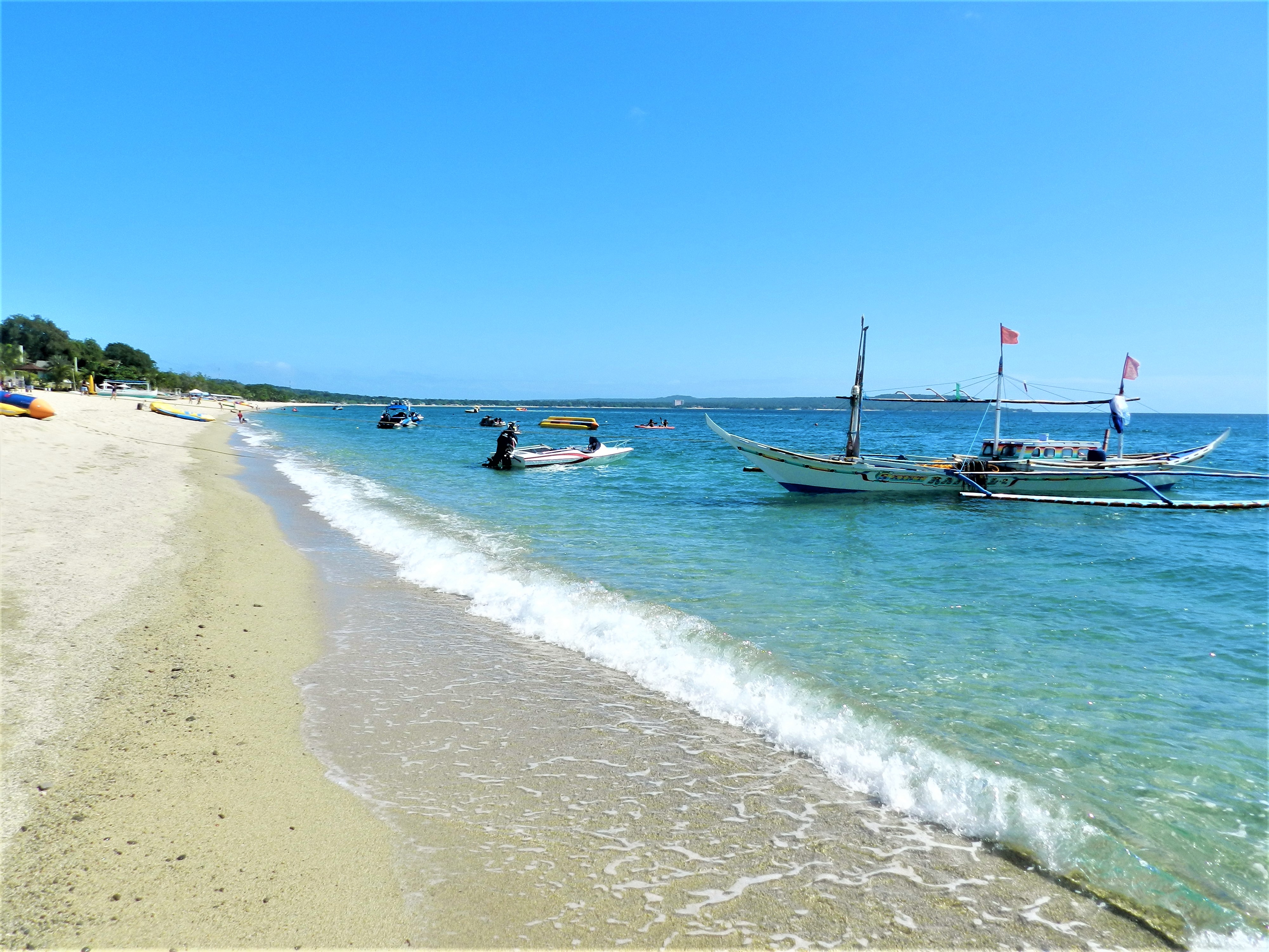 Laiya beach in front of Les Caraibes resort, Laiya, Batangas. Taken with Nikon P500; slight editing with Windows 10 Photos app. Other information Own work, no copyright, released to public domain for Wikipedia usage.